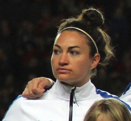 England Women's before the international friendly against USA.